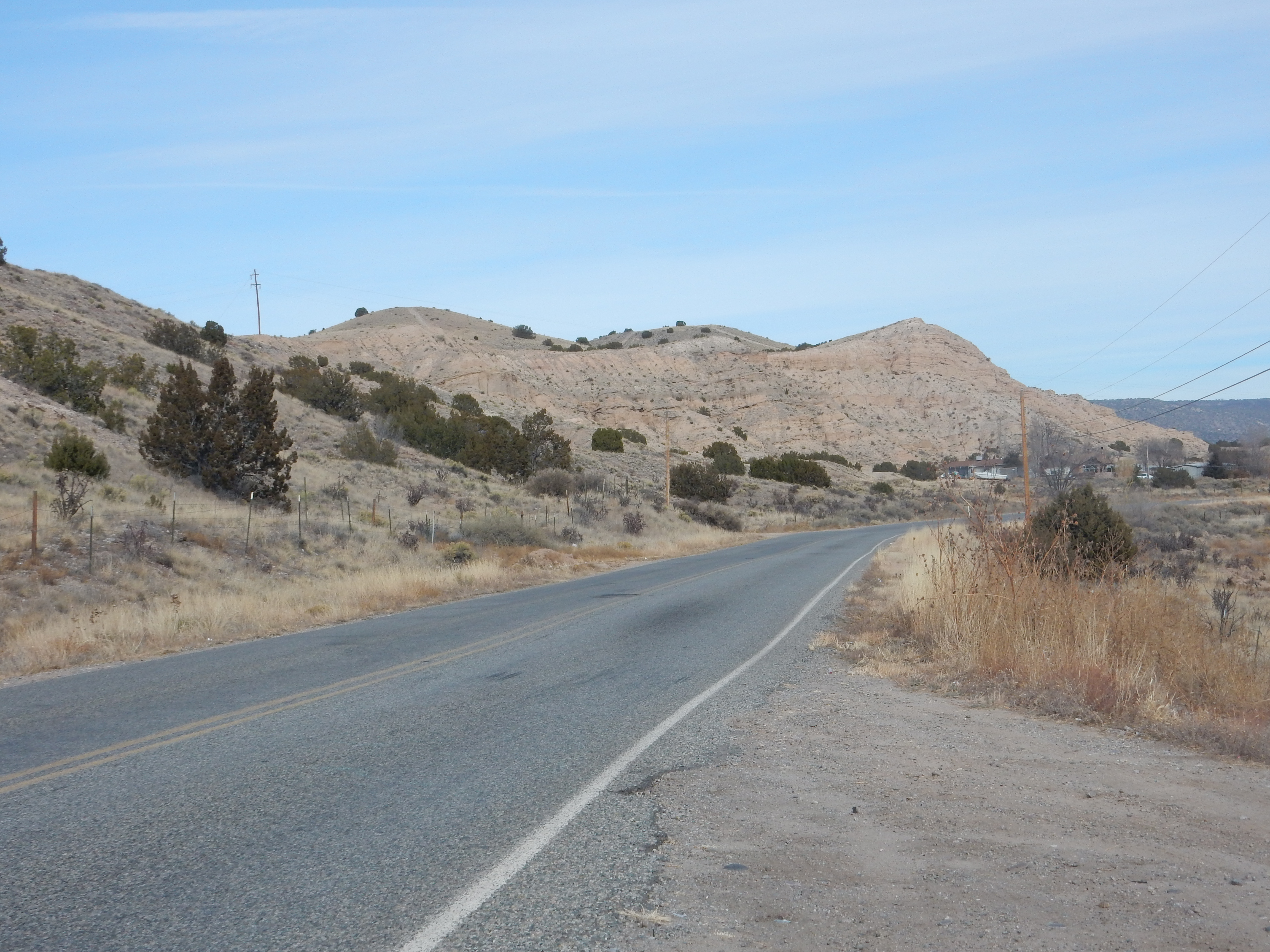 This image shows hills underlain by the Chamita Formation near its type section at Chamita, New Mexico, United States.